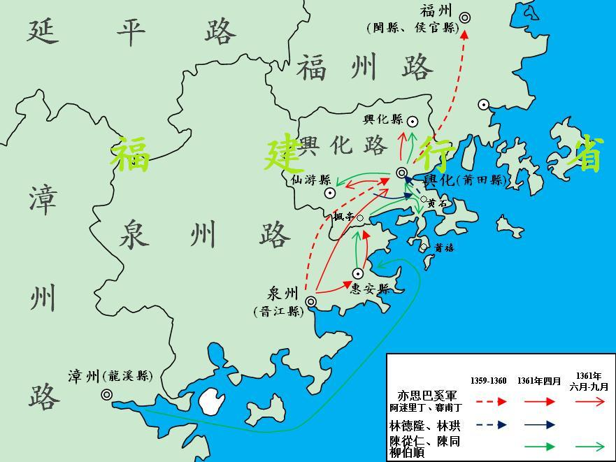 A map of the Islamic Ispah Rebellion (stage 1) in Fujian, 1359-1361 — during the Yuan Dynasty.